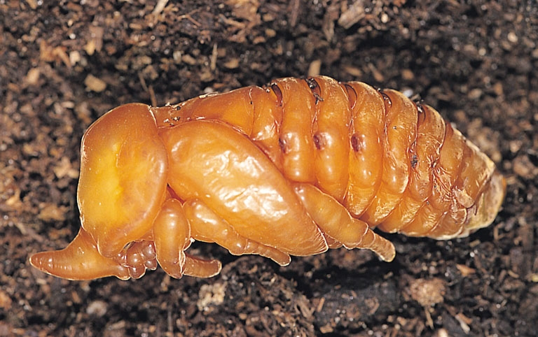 A male pupa of Oryctes nasicornis in Hungary